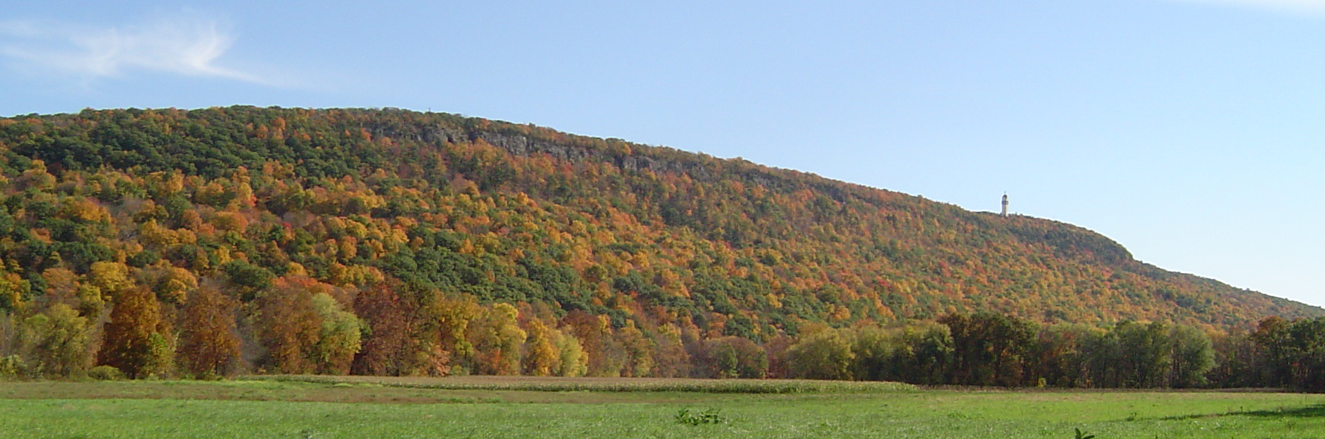 Own work. Taken from the Farmington River flood plain in Simsbury, 100 meters south of RT-185 on Nod Road.